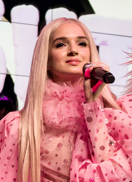 Poppy (That Poppy) performing live at YouTube Space LA in Playa Vista, Los Angeles, California, on Friday, October 6, 2017. This was short performance to promote her Poppy.Computer world tour.